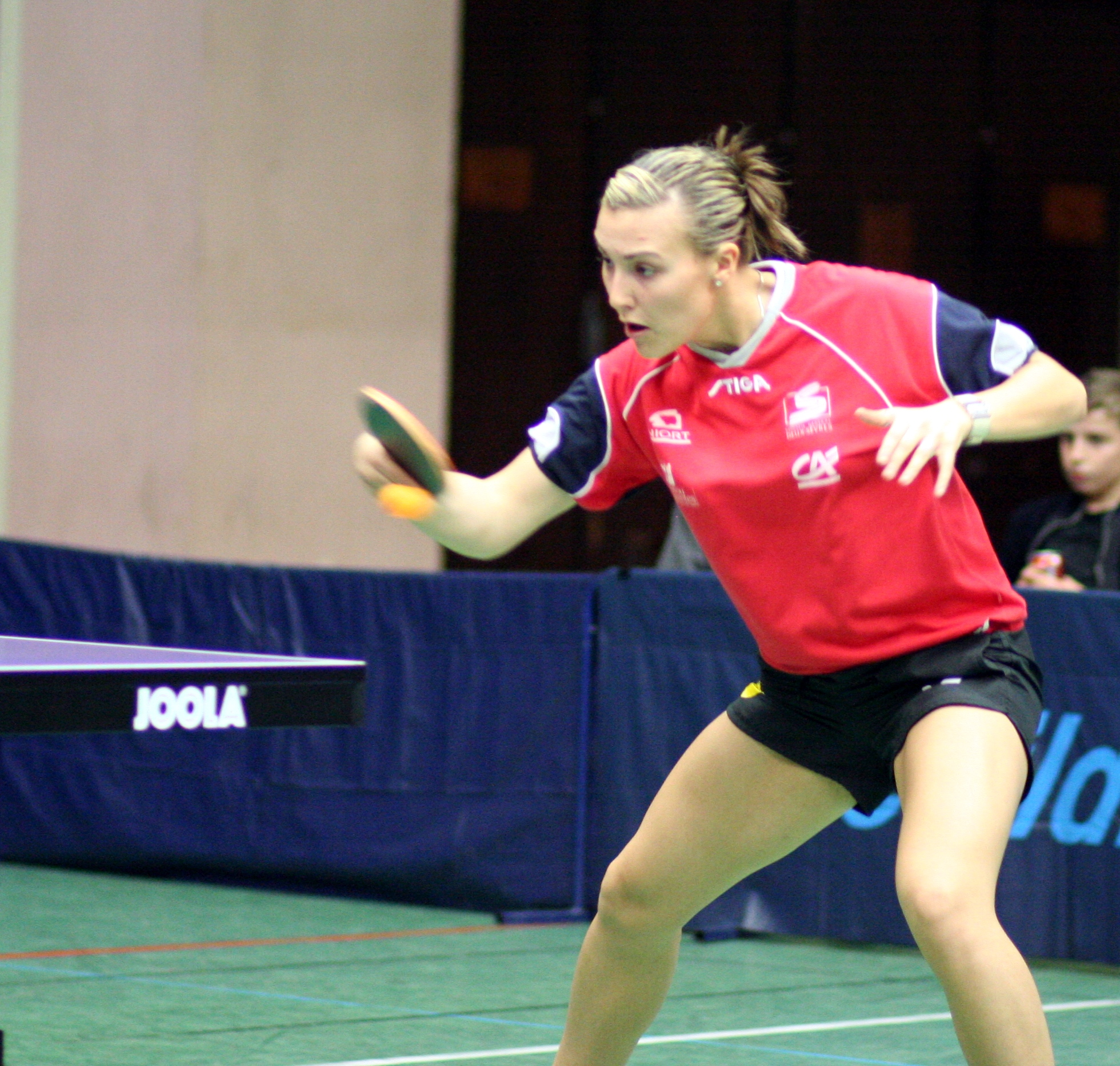 crop from photo of Kelly Sibley playing table tennis. Levels adjusted.